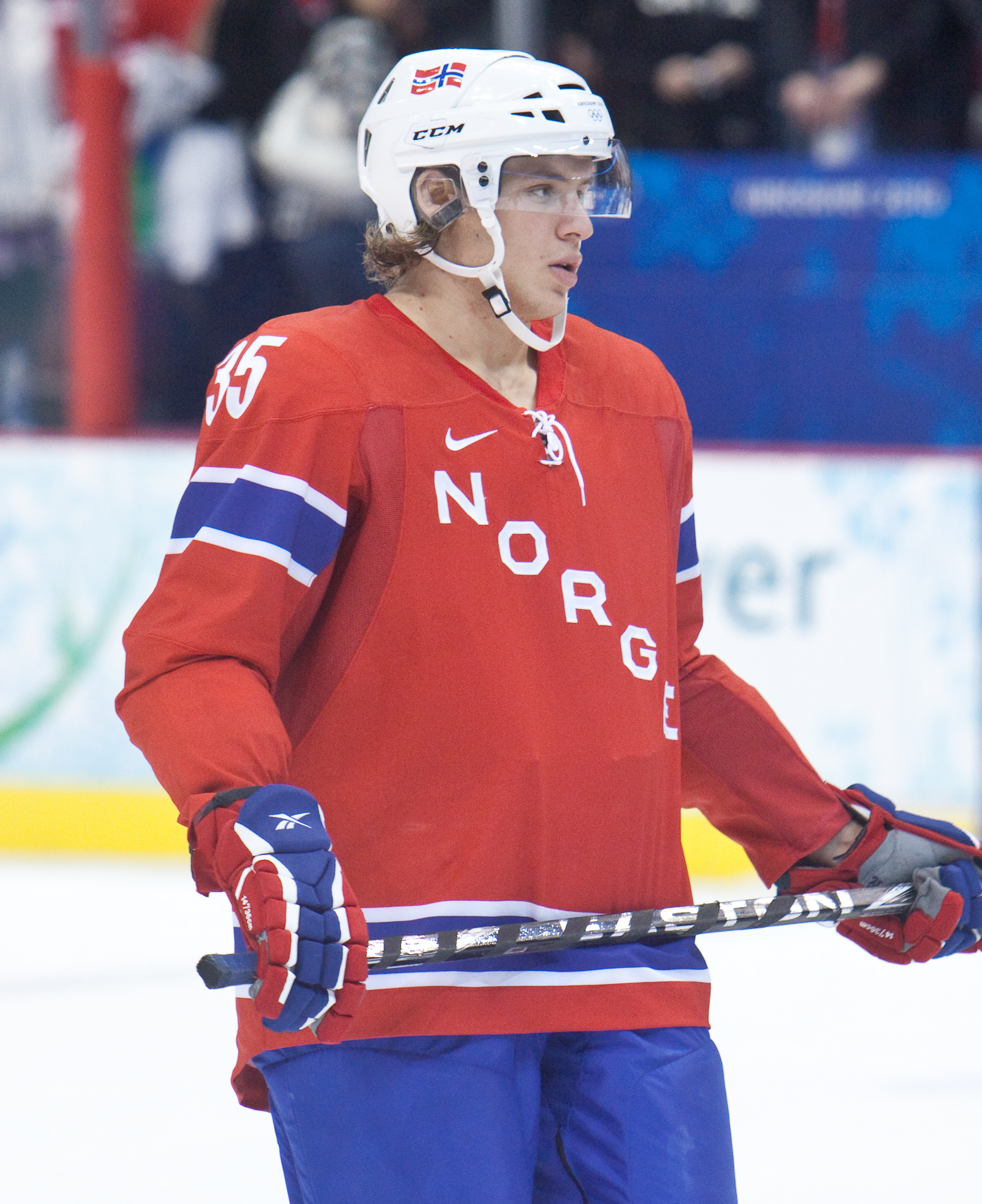 Martin Laumann Ylven of Norway during the 2010 Winter Olympics